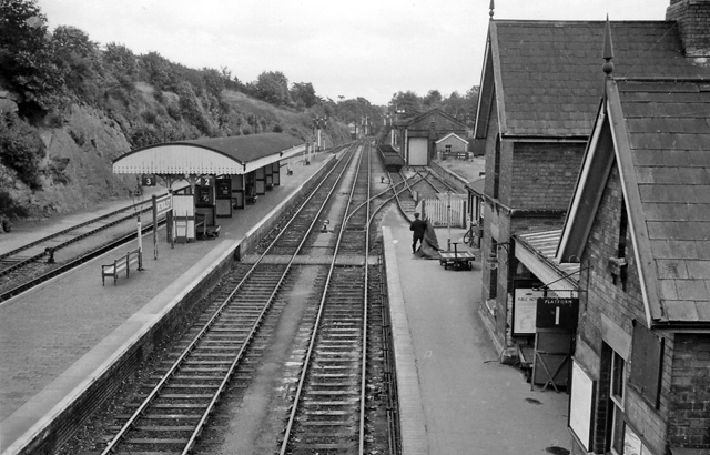 Bewdley Station. View eastward, towards Kidderminster and Hartlebury; former GWR Shrewsbury - Hartlebury line, now Severn Valley Railway, which was closed 9/9/63, but restored by the SVR southward from Bridgnorth in stages from 1974 and extended to Kidderminster by 1984. Bewdley Station closed 5/1/70, along with the line from Kidderminster to Tenbury Wells and Woofferton